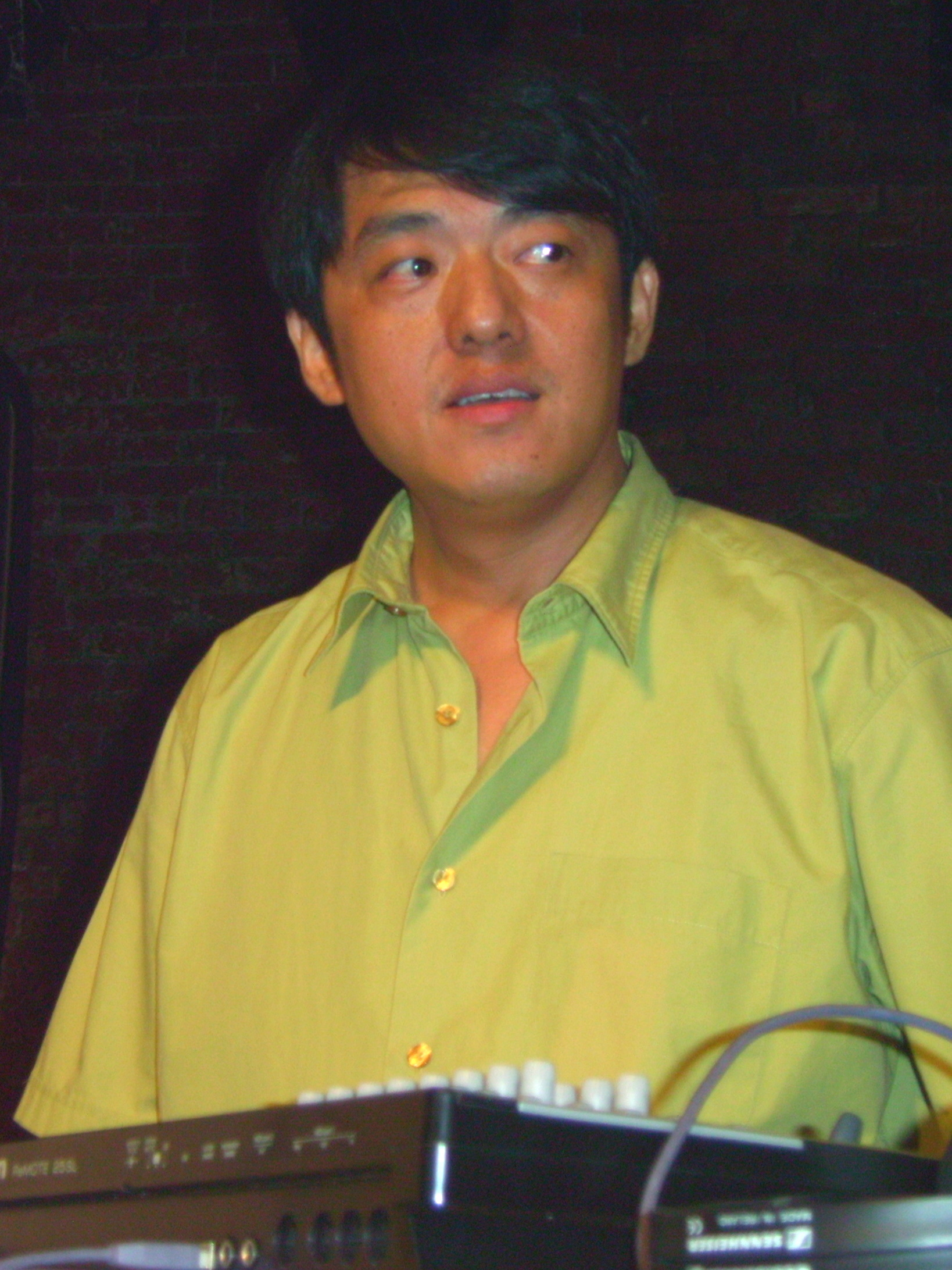 Wikimania 2007 Welcome Party: Lim Giong (林強).